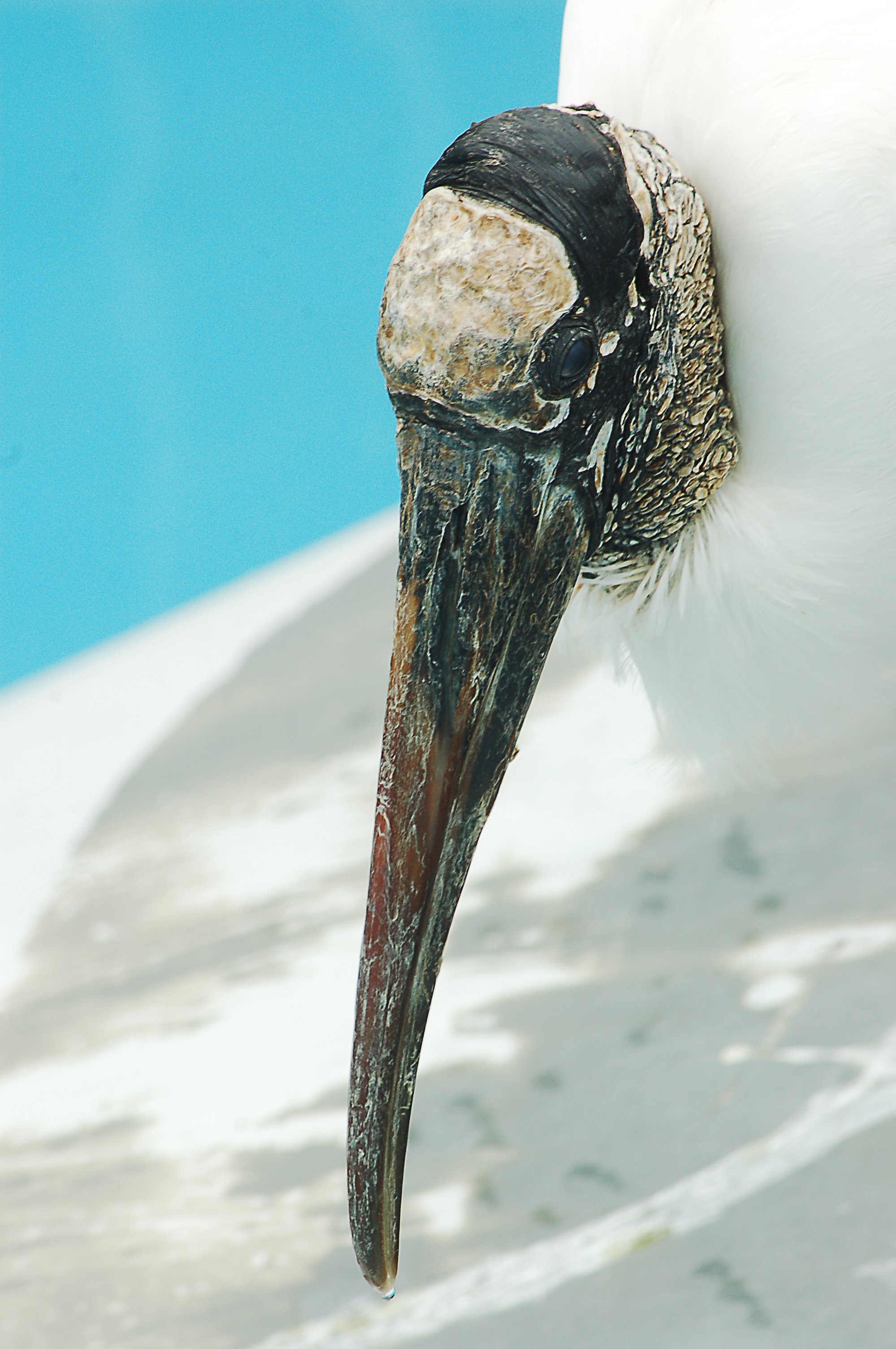 Up close and personal with a Wood Stork at Gatorland in Orlando, Florida.